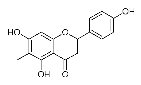 chemical structure of poriol